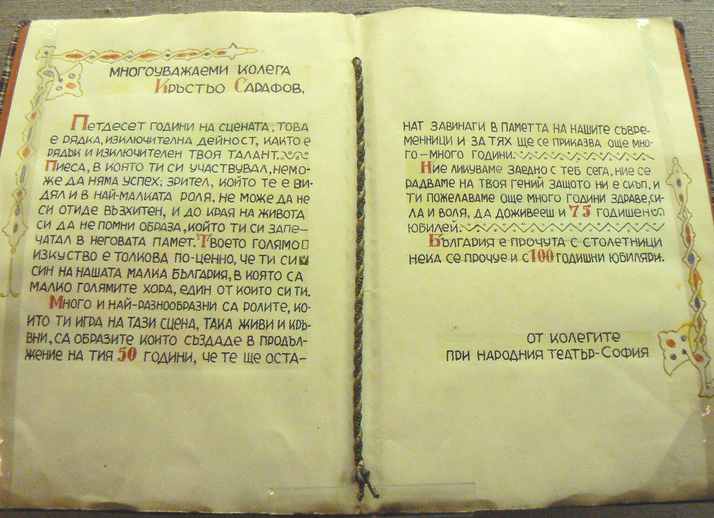 Congratulatory letter to Krustyo Sarafov for 50 years on stage. Exhibit of the National History Museum of Bulgaria